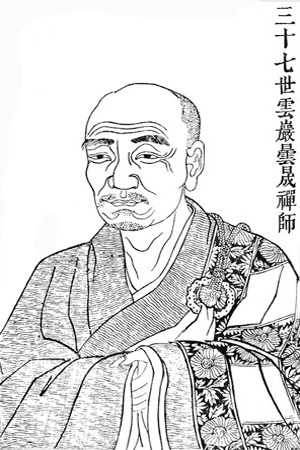 Yunyan Tansheng (780-841), a Tang Dynasty Buddhist monk. Woodcut, Ching dynasty; caption:「三十七世雲巌曇晟禪師」